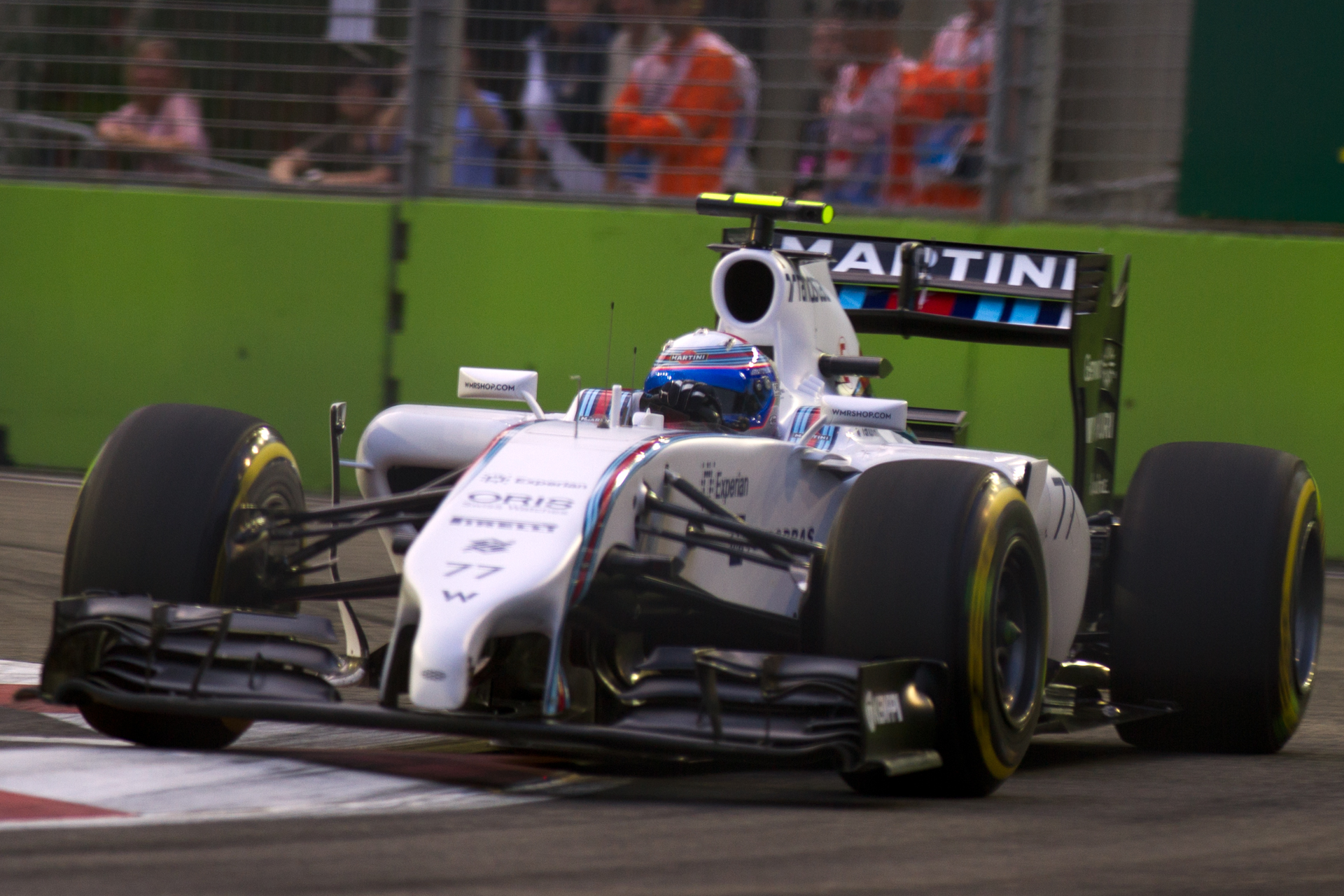 Formula One 2014 Rd.14 Singapore GP: Valtteri Bottas (WilliamsF1)